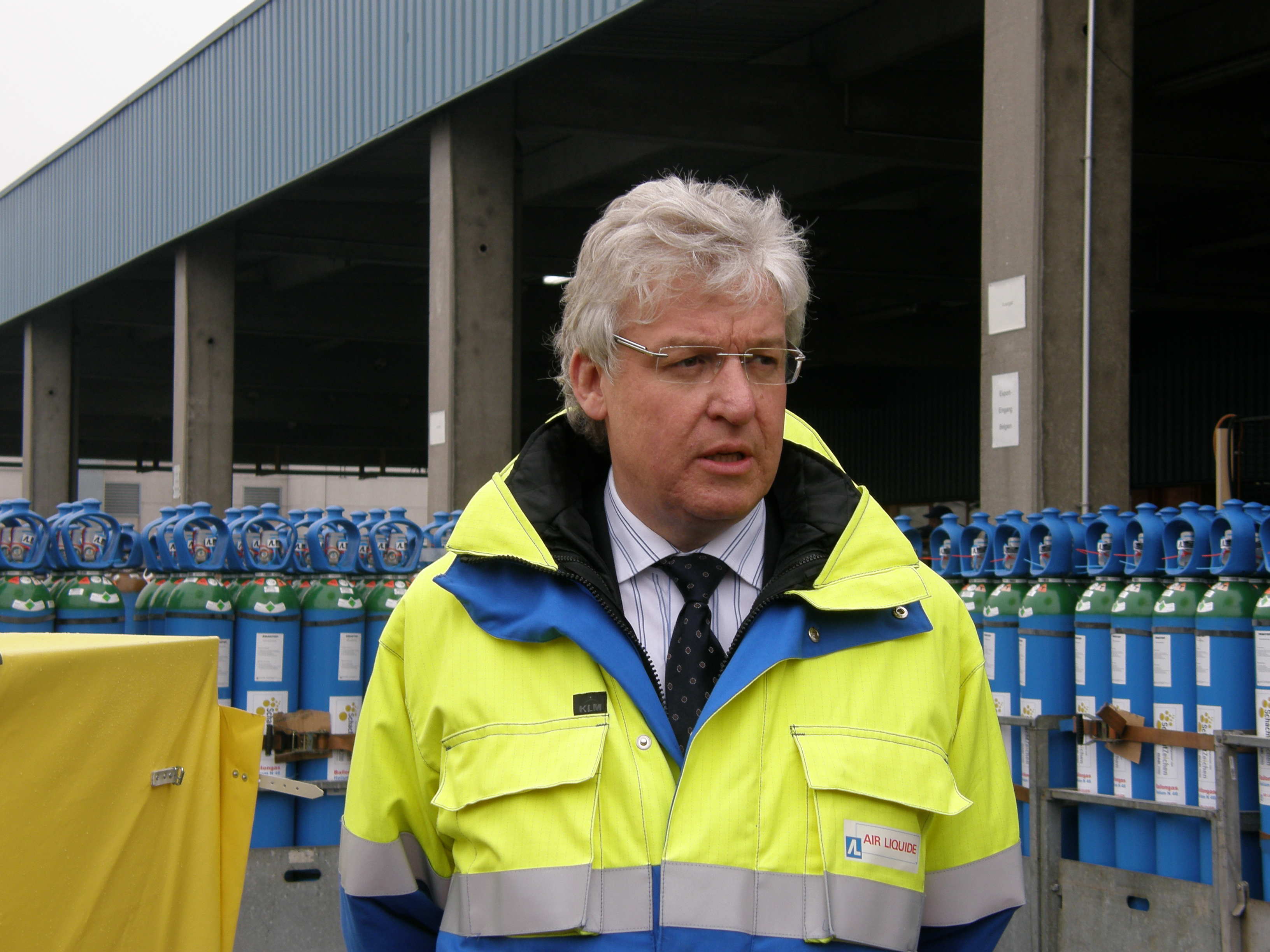 Oliver Scheytt at the presentation of Shaft Signs (Schachtzeichen)